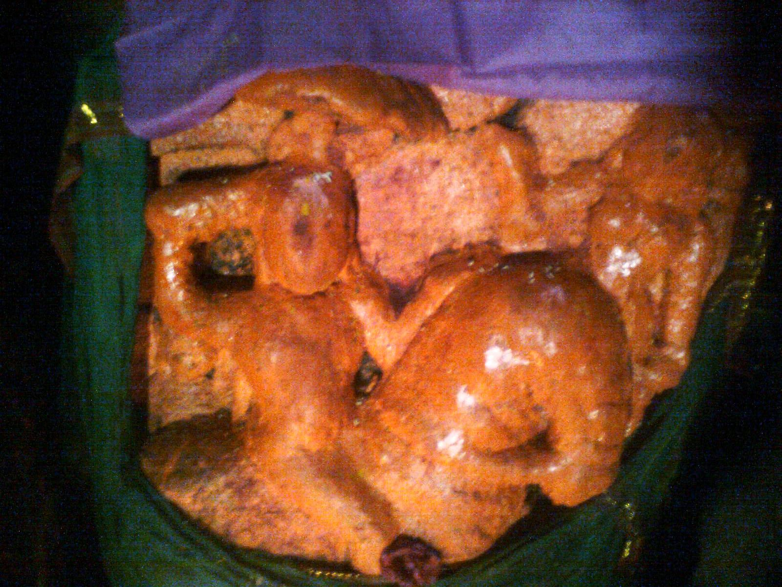 This is the idol of Kanbai mata in kanbai temple, Balsane, Maharashtra, India.Its features are not clearly visible due to sindoor. In this idol goddess kanbai (Kanubai or Kanudevi) is ridding a horse with sword in hand.